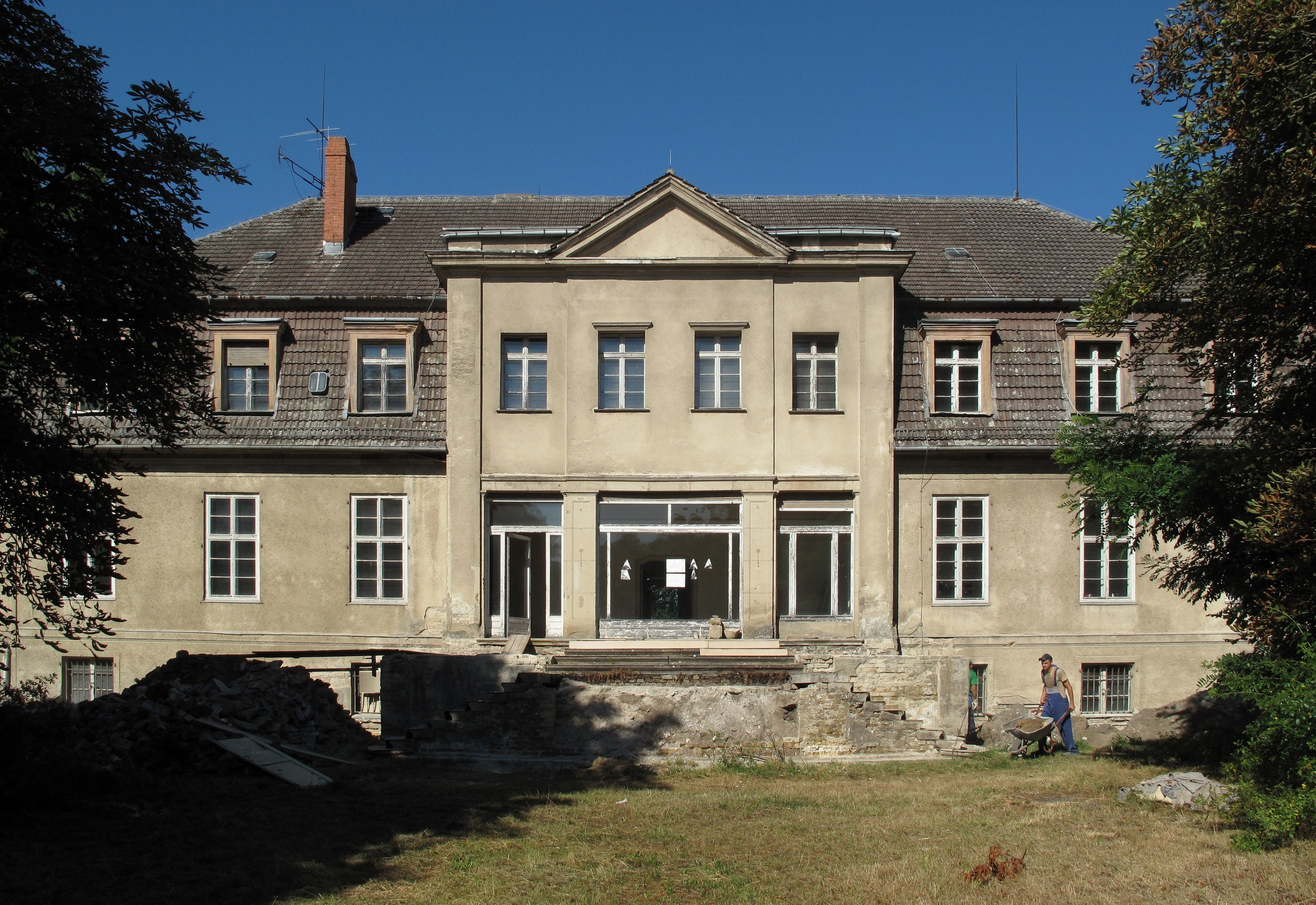 Listed manor house in Selchow, built in 1913 by the architect Alfred Breslauer for the banker Paul Mankiewitz. Since 1991 the historic house has been empty and was last dilapidated. In 2012 bought by a private couple, it is since 2013 in renovation and restoration. The couple wants the house make available to the public for culture and events. The village Selchow is a part of the town Storkow, District Oder-Spree, Brandenburg, Germany. The village was first mentioned in 1321 and had on January 1, 2013 259 inhabitants.